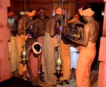 I Took this photo graph.